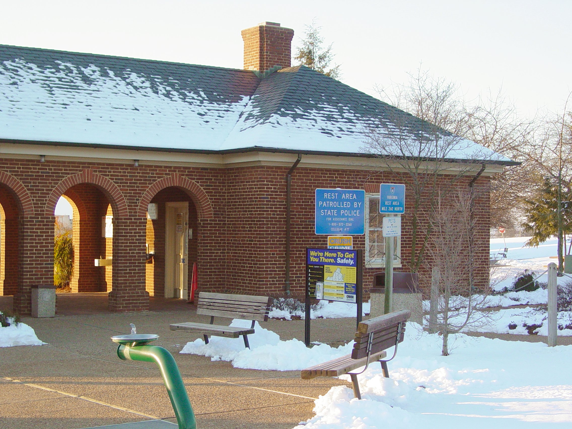 Rest area on northbound Interstate 81 at milepost 262 in Rockingham County, Virginia.